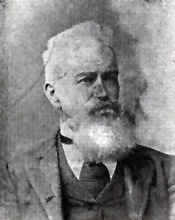 Benjamin F. Grady, US Representative from North Carolina